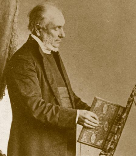 Benjamin Cronyn, sometime bishop of Huron and an early opponent of George Whitaker and Trinity College. He's dead now. This Canadian work is in the public domain in Canada because its copyright has expired due to one of the following: 1. it was subject to Crown copyright and was first published more than 50 years ago, or it was not subject to Crown copyright, and 2. it is a photograph that was created prior to January 1, 1949, or 3. the creator died more than 50 years ago.